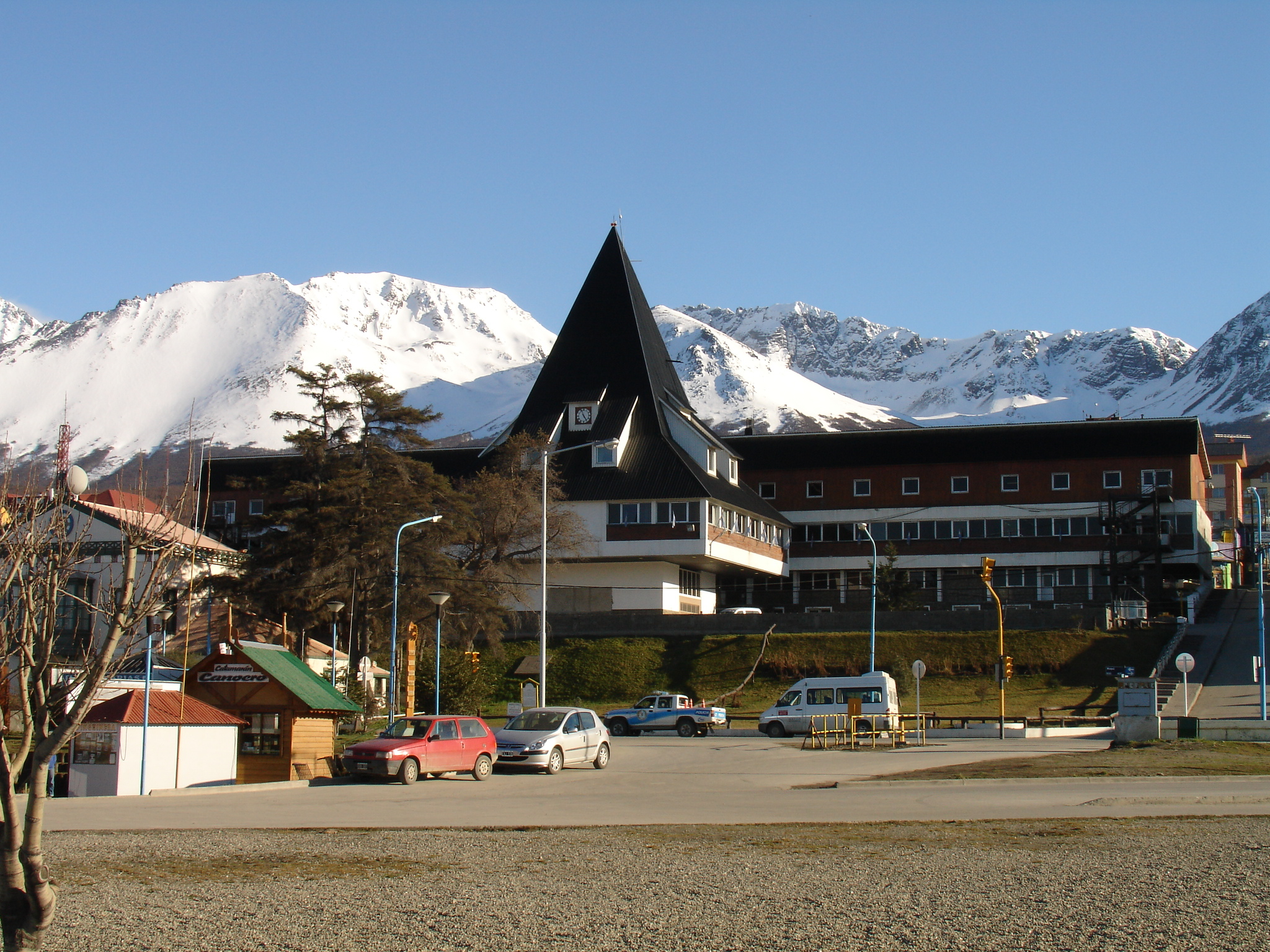 Goverment of the "Provincia de Tierra del Fuego, Antártida e Islas del Atlántico Sur" province of Argentina, in Ushuaia